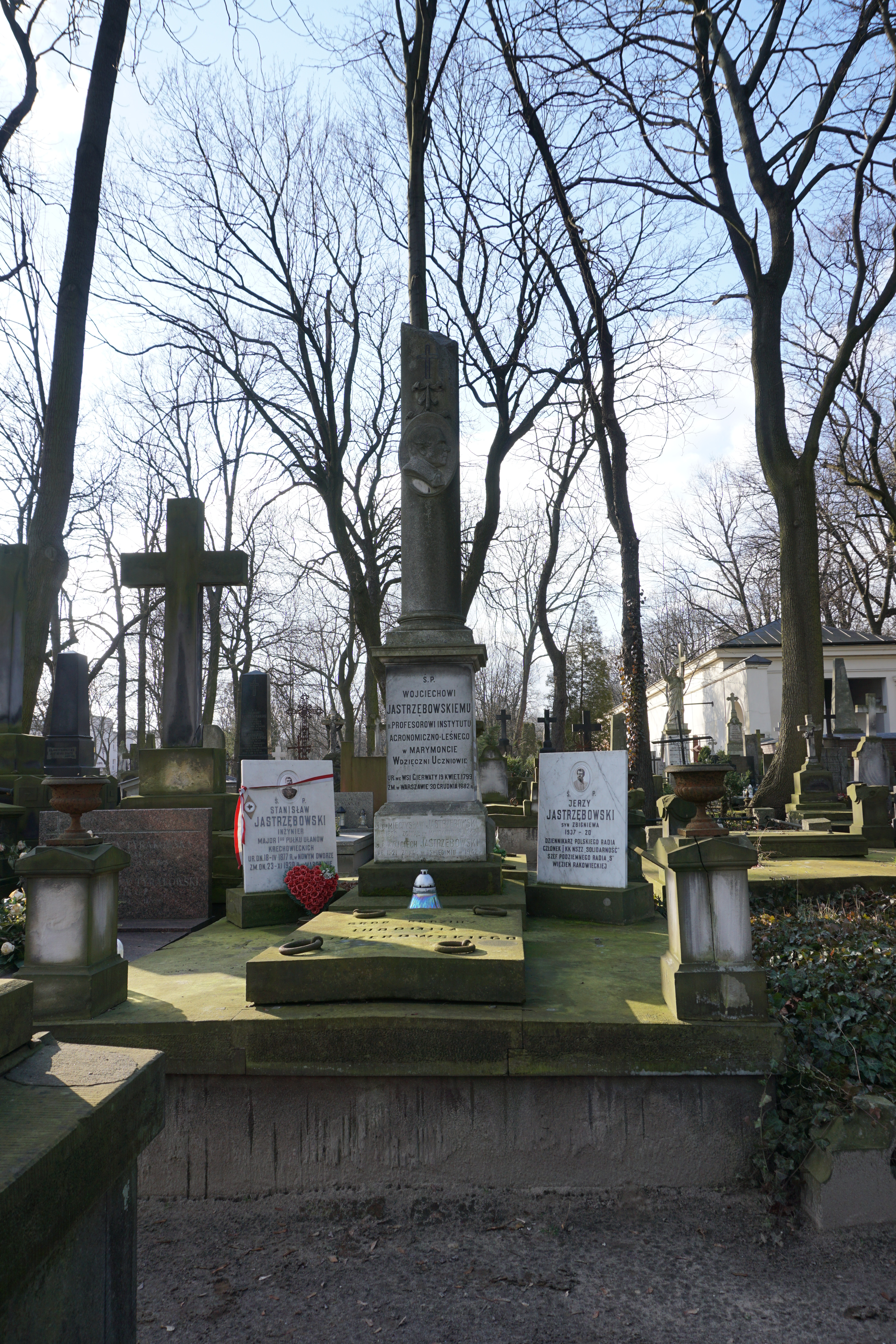 The grave of Wojciech Jastrzębowski at the Powązki Cemetery (section 162, row 5, grave 16, 17)